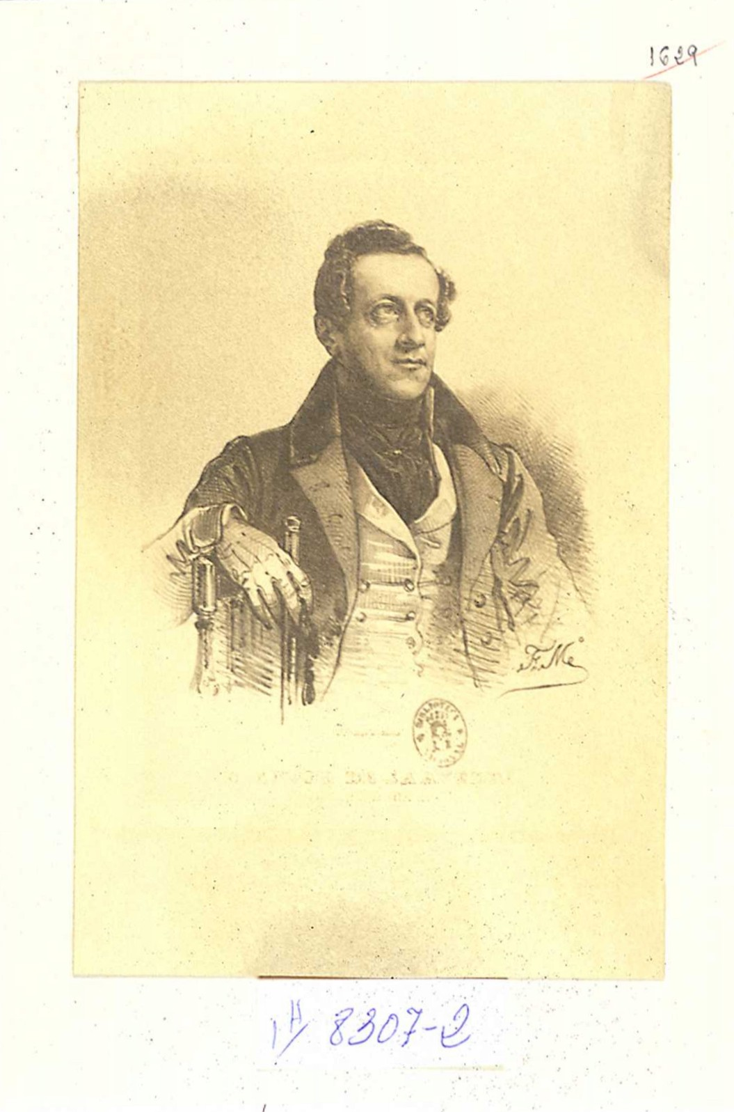 Portrait of Ángel de Saavedra y Ramírez de Baquedano, 3rd Duke of Rivas.